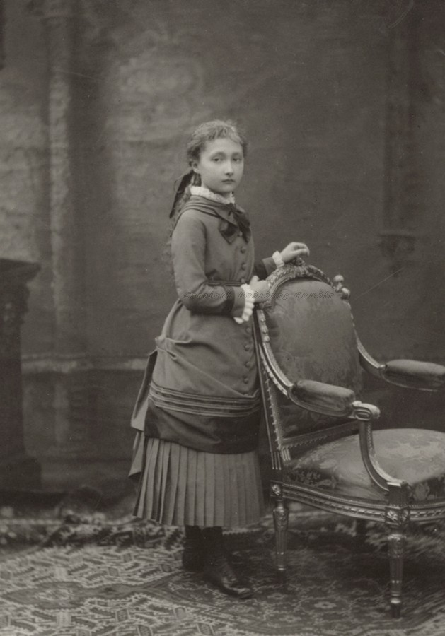 Princess Clémentine of Belgium (1872-1955), youngest daughter of King Leopold II of Belgium.